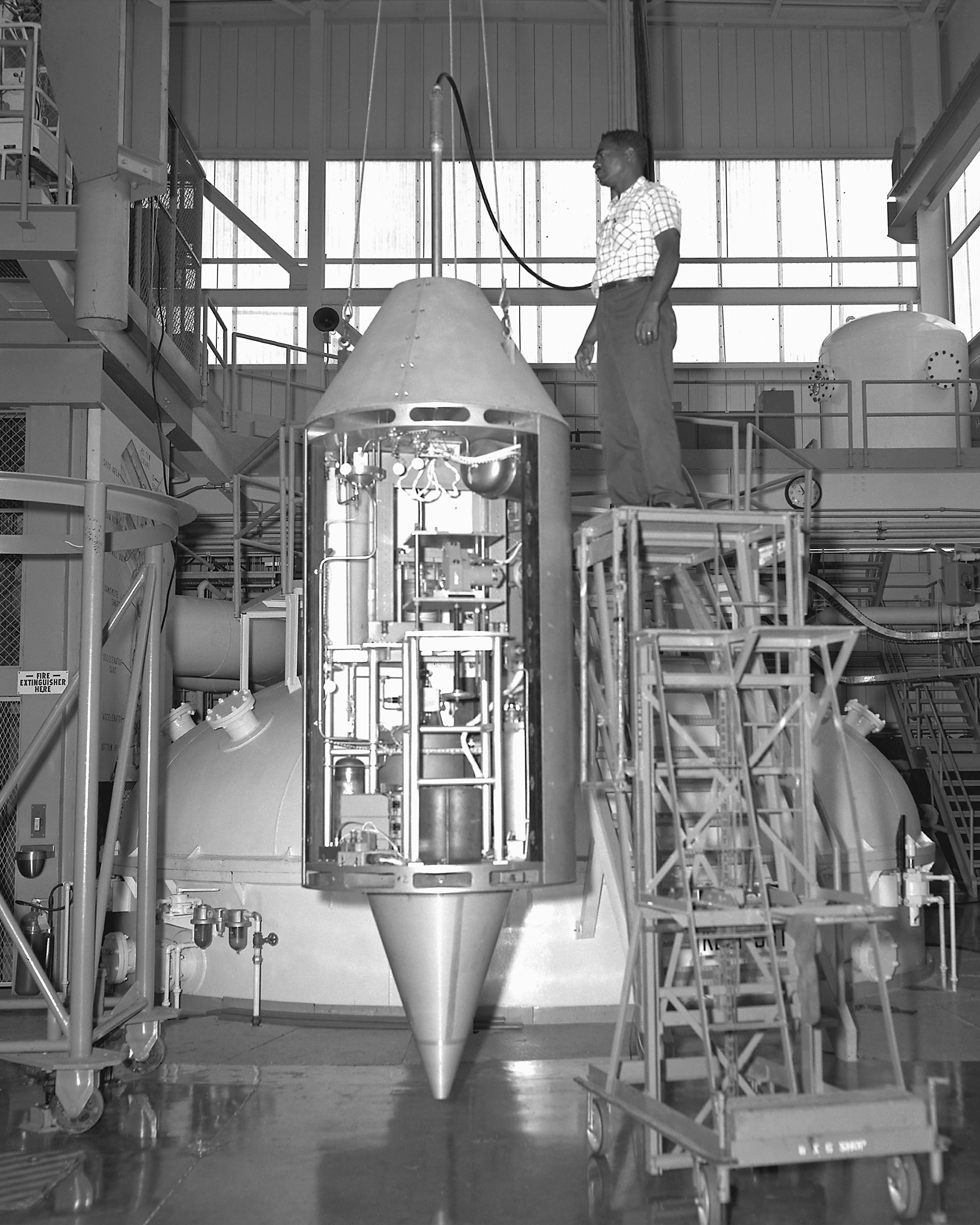 Zero-g payload building at the Space Experiments Laboratory at the Lewis Research Center, now known as John H. Glenn Research Center